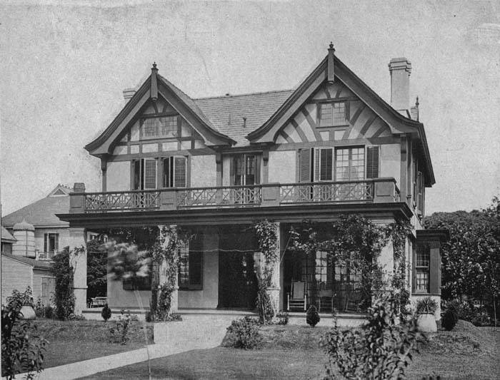 New Orleans, 1907: House of Allen Tupper, 1565 Exposition Boulevard at Audubon Park. Designed by Rathbone E. DeBuys; cost $6,000.